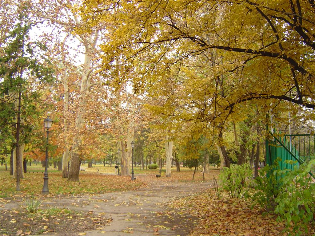 Gradski Park in Zemun, Serbia. Photo taken in November 2009.